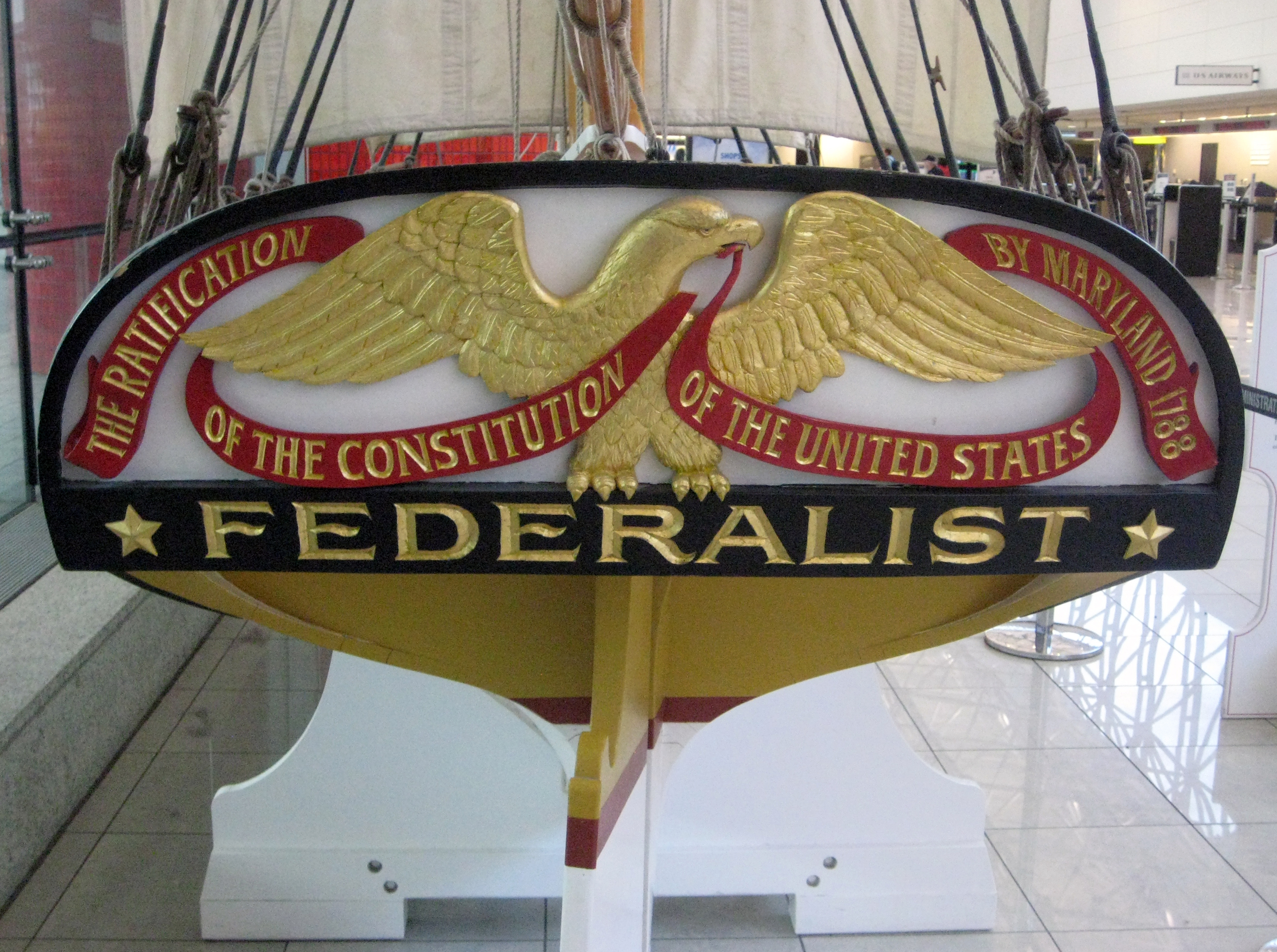 View of the carved stern of the Maryland Federalist, BWI Airport, June 25, 2011.